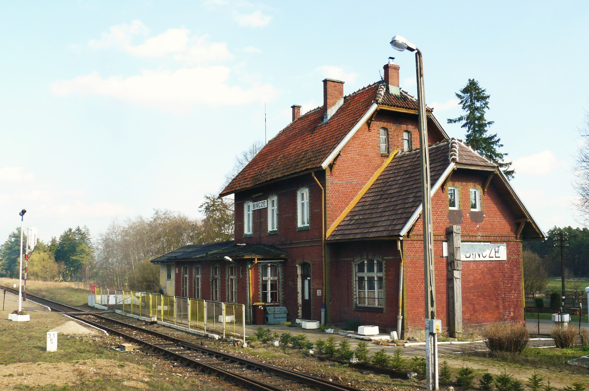 Bincze Railway Station.